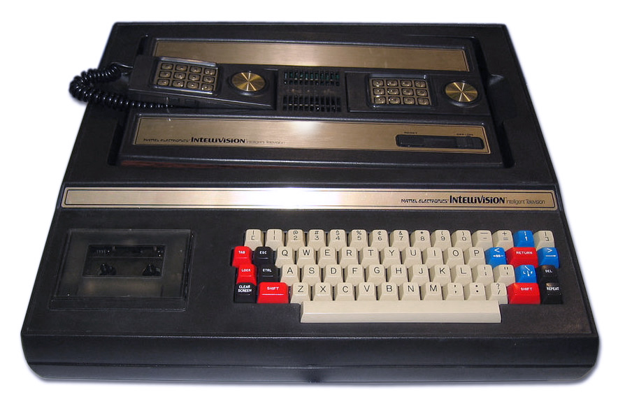 Intellivision with his first keyboard component, named Blue Whale or Intelliputer, at the E3 2005